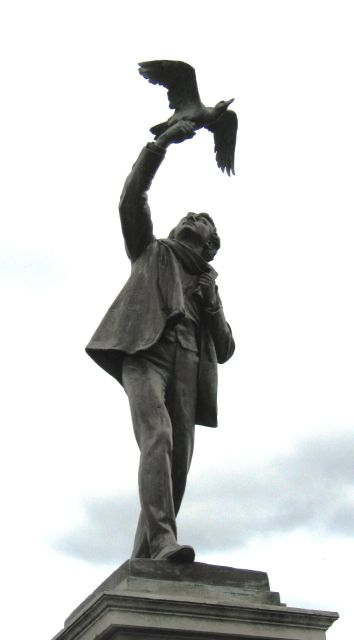 Statue of Albrecht Rodenbach in the De Coninckplein in Roeselare, Belgium, unveiled in 1909